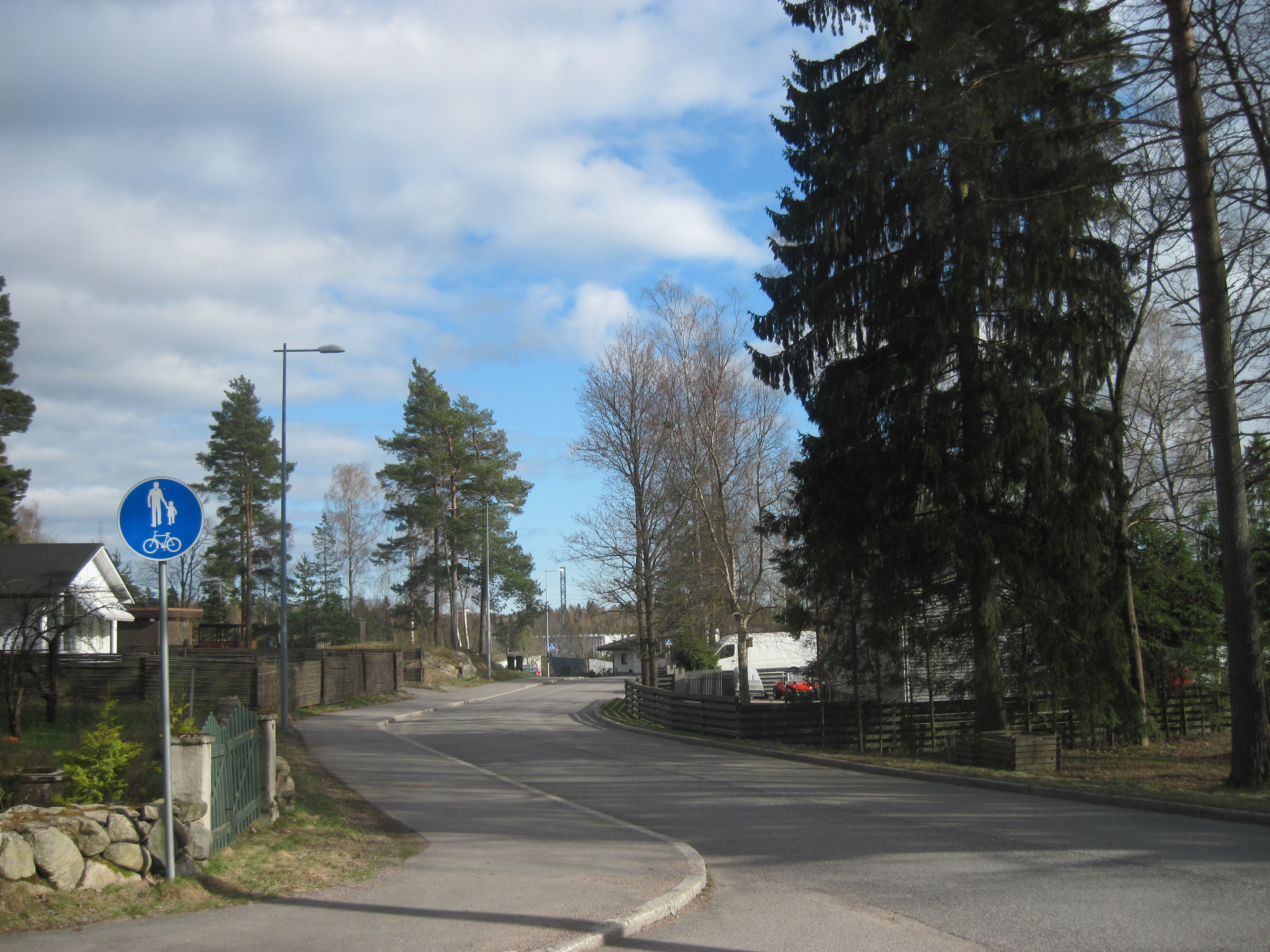 Tillintie at Tillinmäki, Espoo, Finland